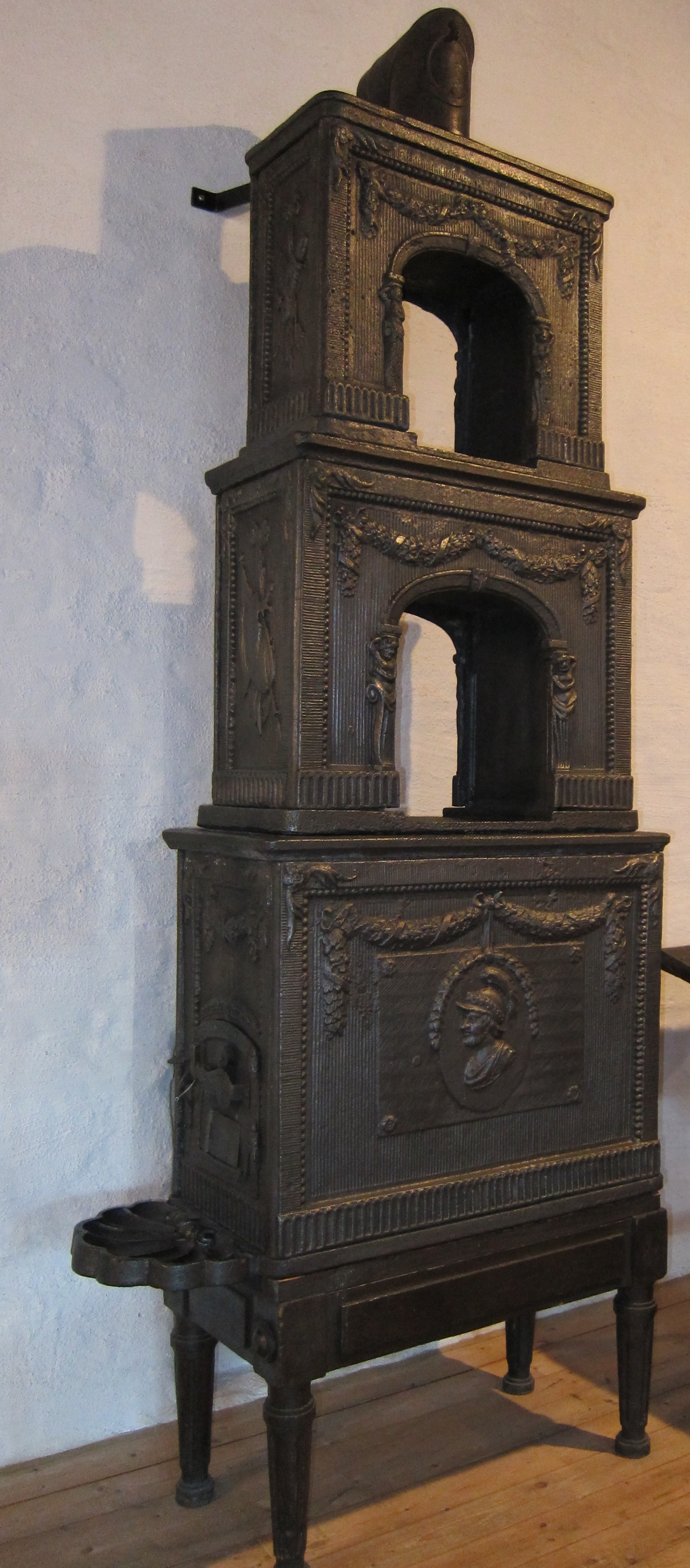 Oven manufactured at Moss Jernverk, Moss in Norway, on display at the Moss City and Industrial Museum. The oven is produced in 1769 and the type was named "Medaljongen", the artist designing the oven is probably Henrik Beck. The oven was found in Denmark.